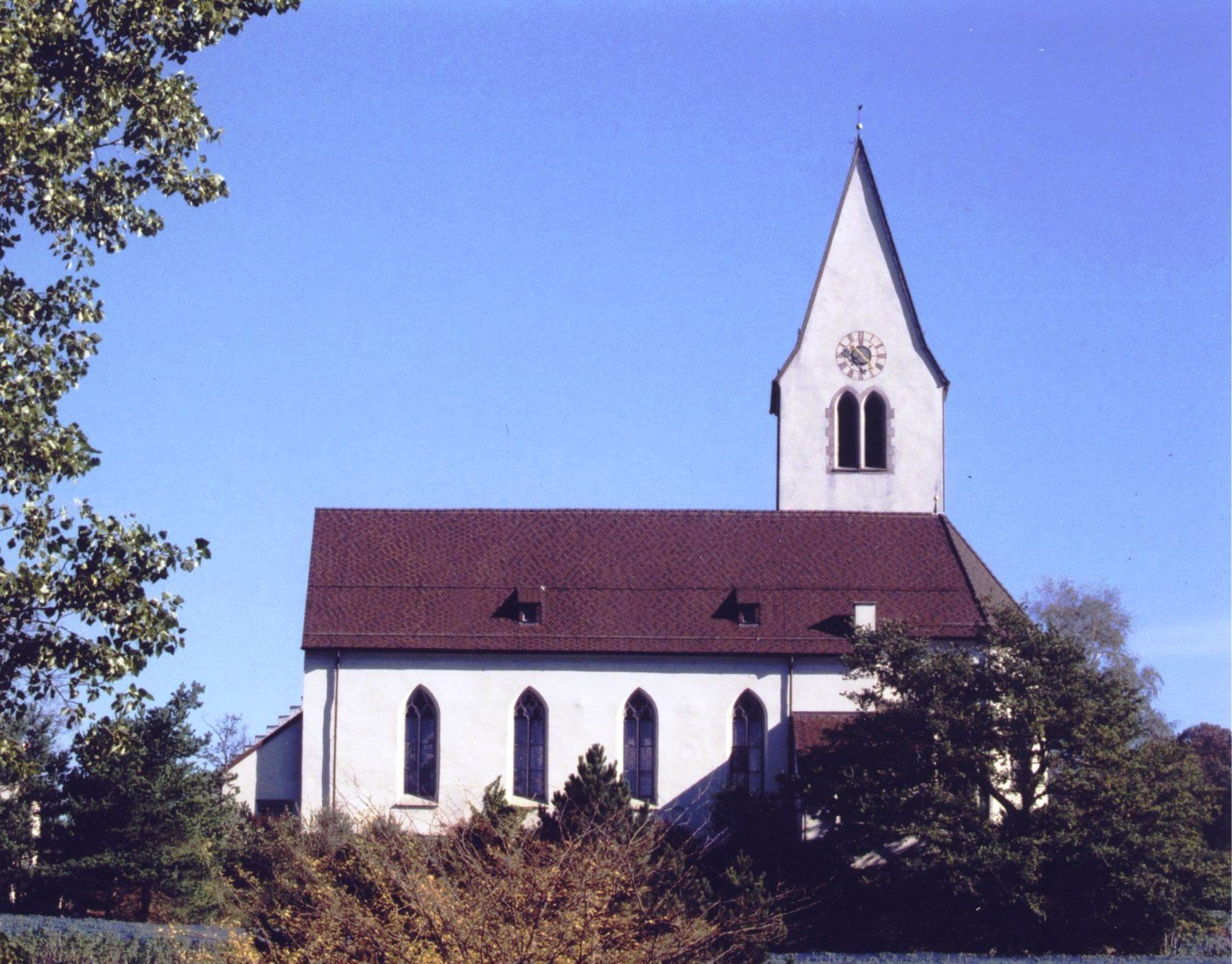 Parish church saint Maria in Bendern-Gamprin, principality of Liechtenstein